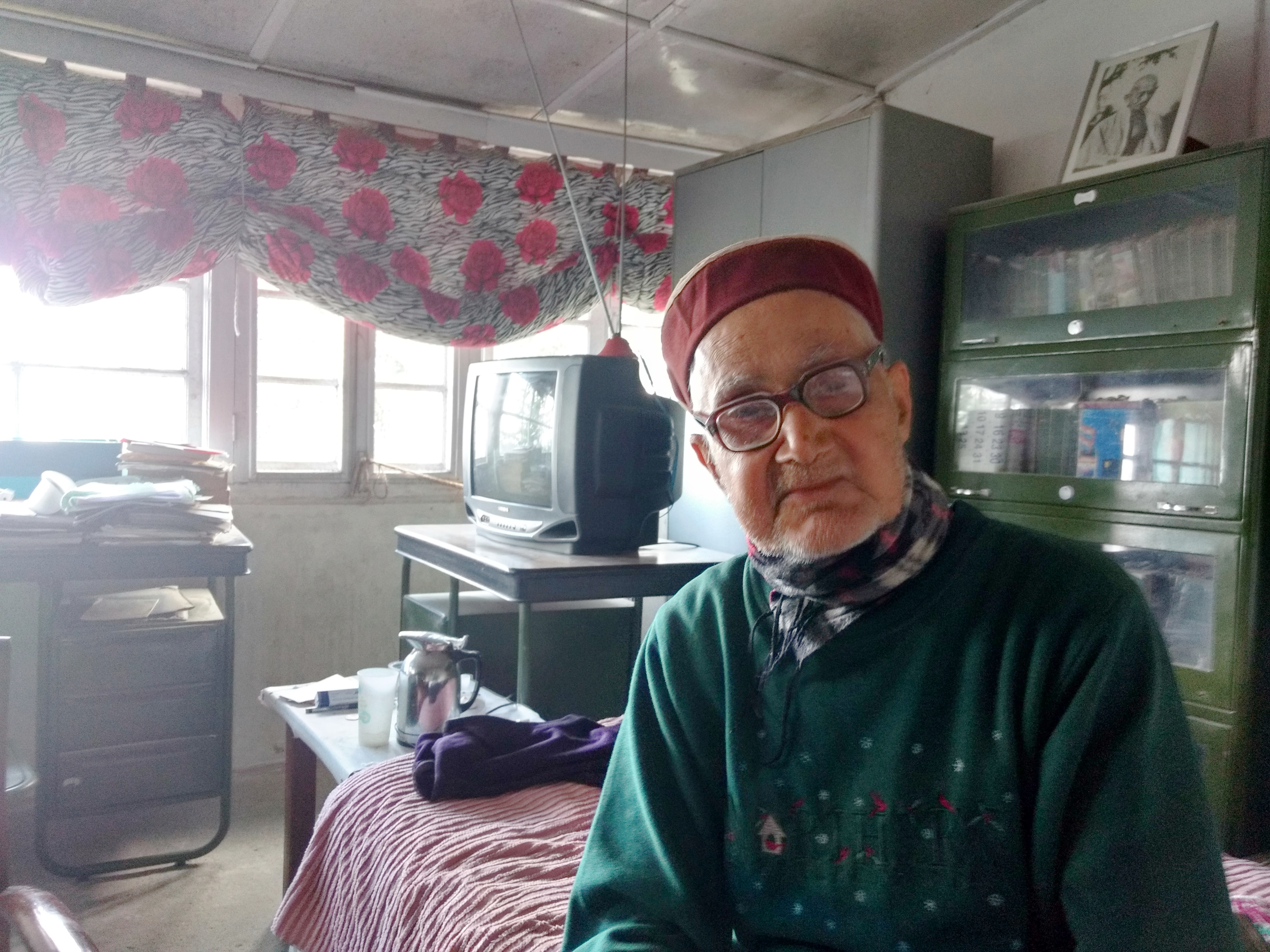 Prof S R Mehrotra